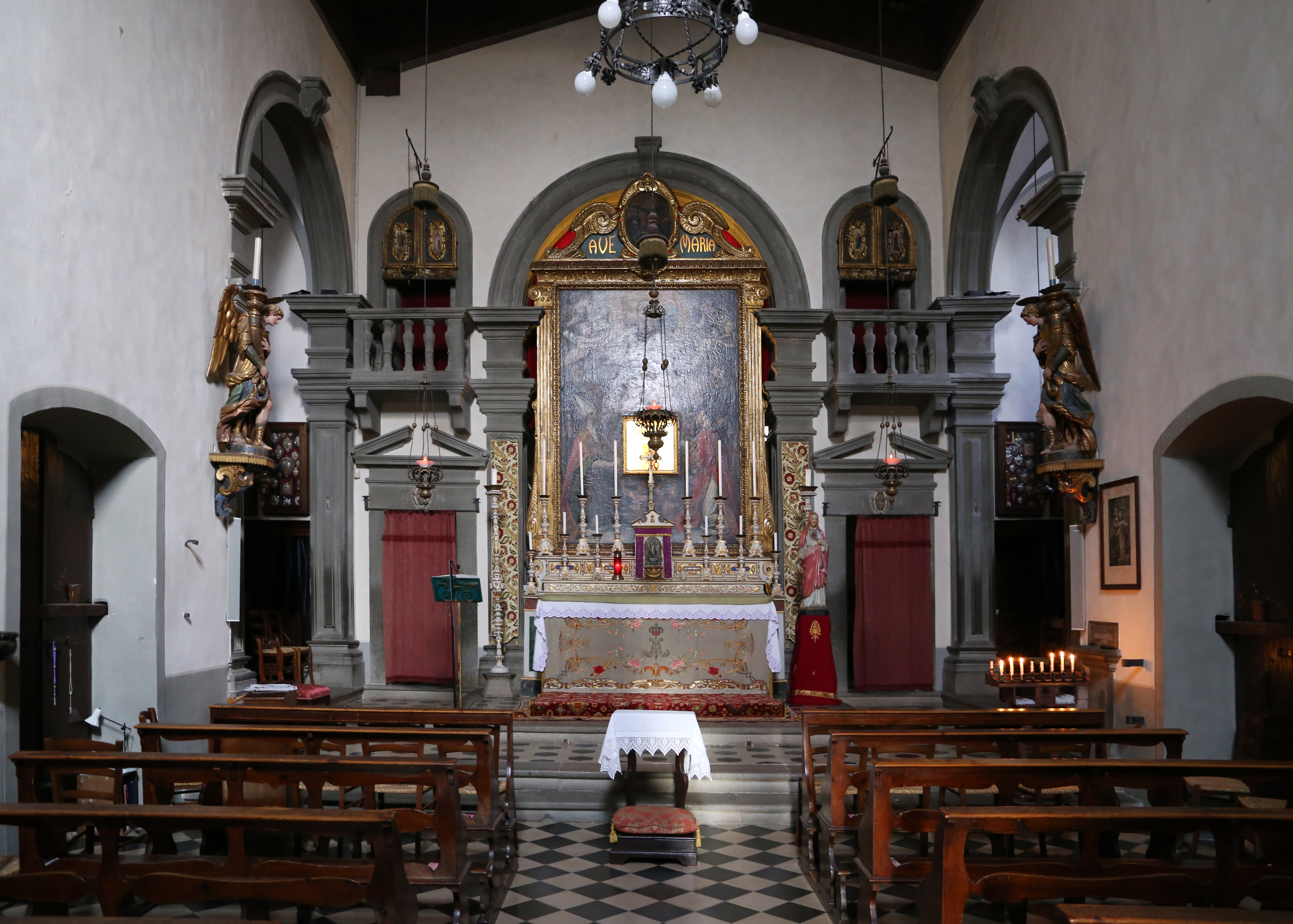 Santa Maria delle Grazie (Pietracupa)